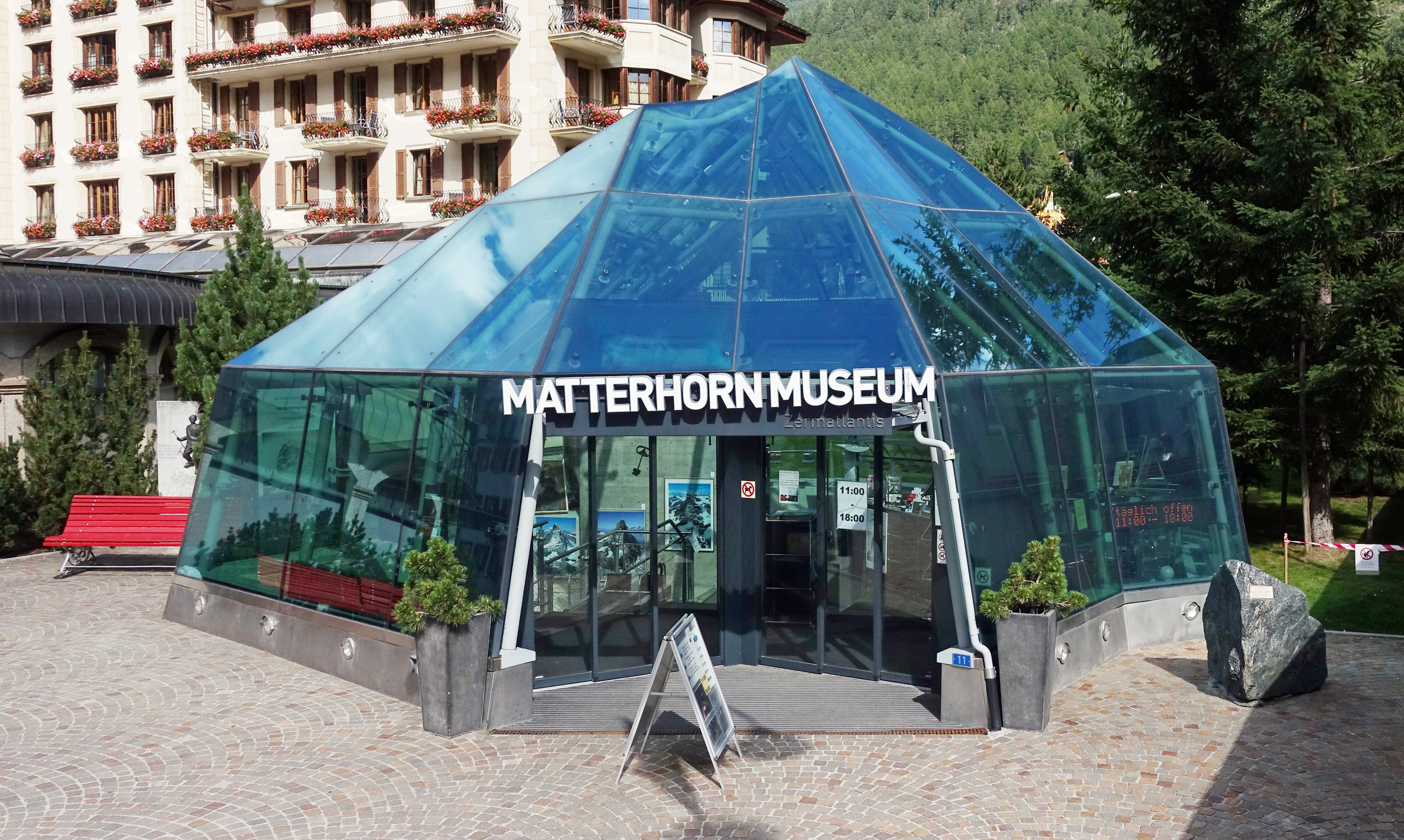 Matterhorn Museum, Zermatt, Switzerland.